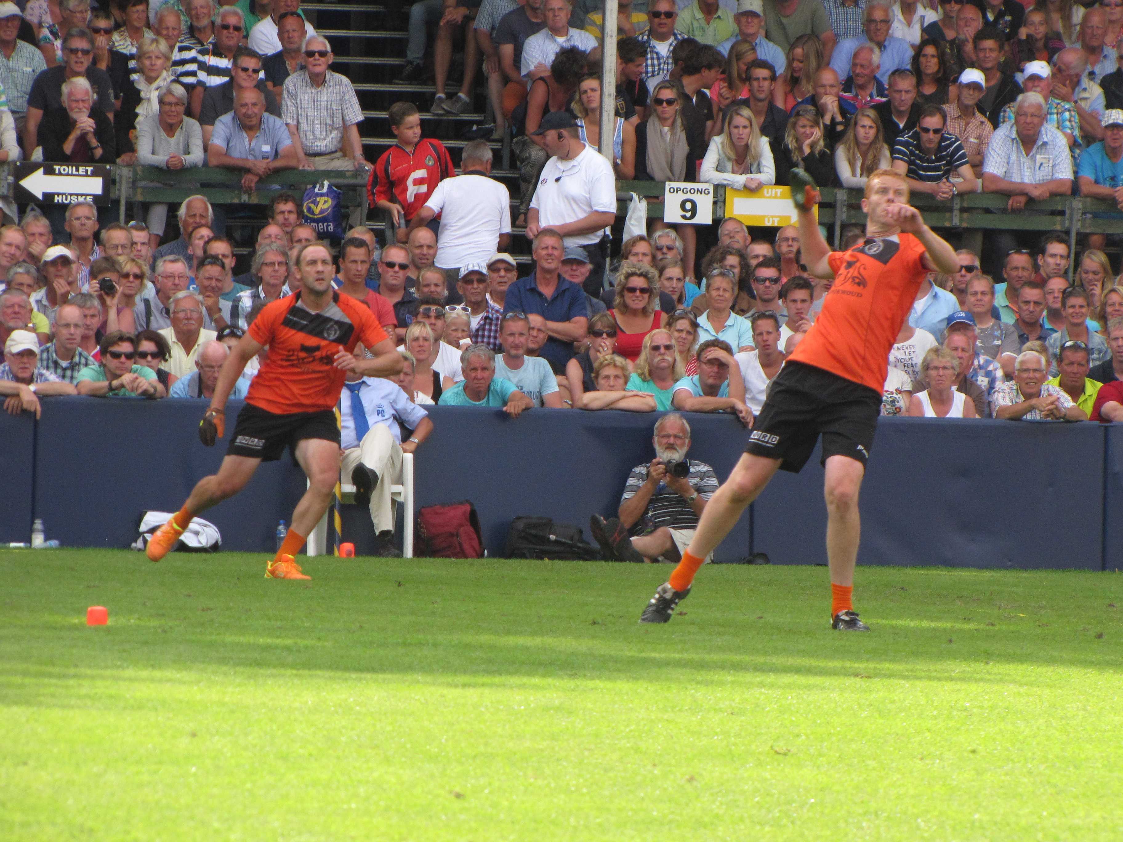 Daniël Iseger and Jacob Wassenaar at the PC of 2014Frysk: Daniël Iseger en Jacob Wassenaar yn de finale fan de PC fan 2014